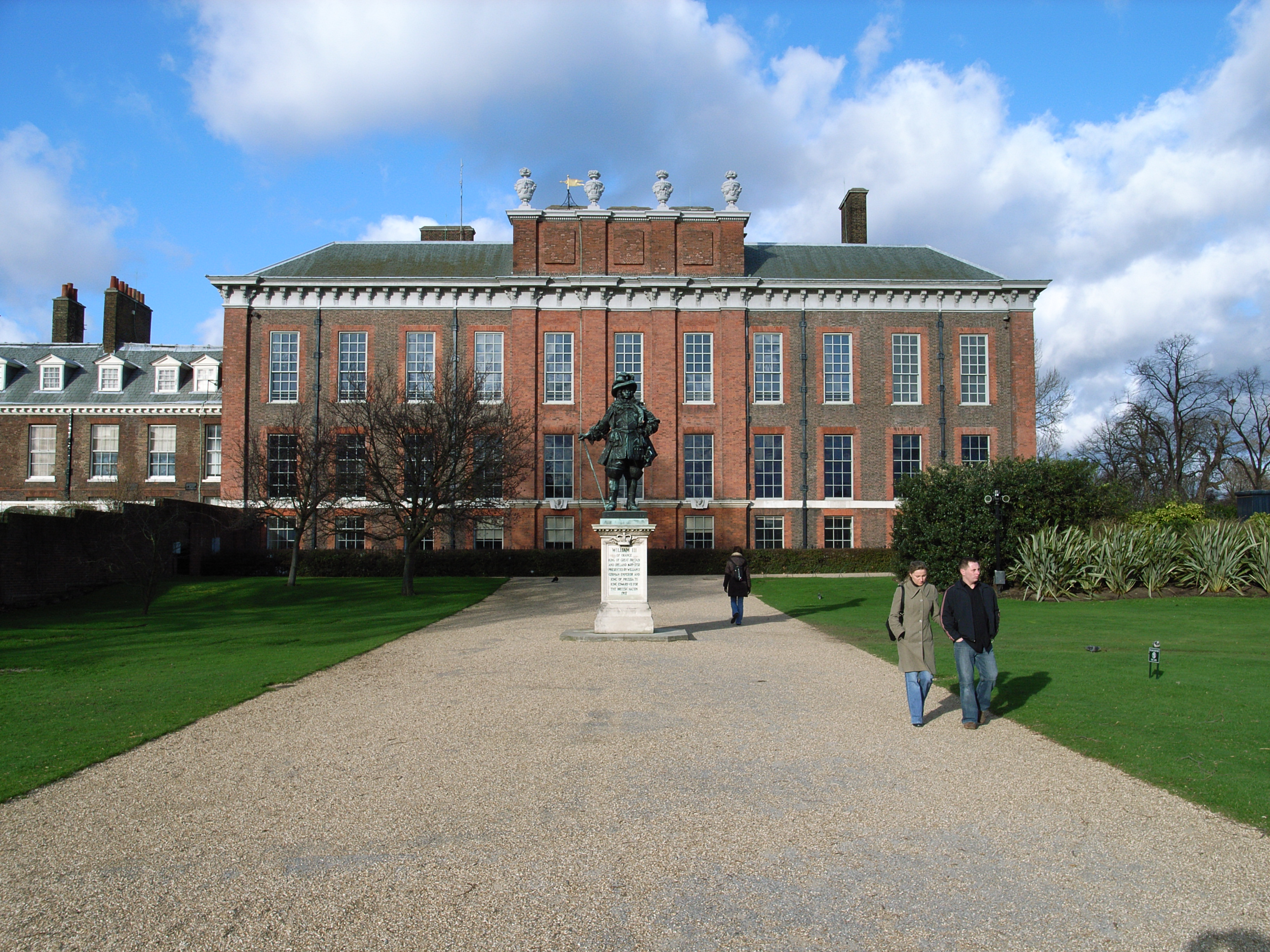 Kensington Palace